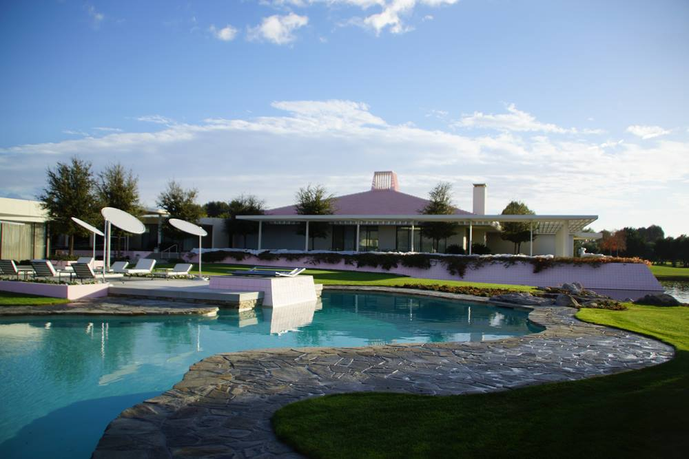 Sunnylands, the former home of philanthropists Walter and Leonore Annenberg, is now a high level retreat.